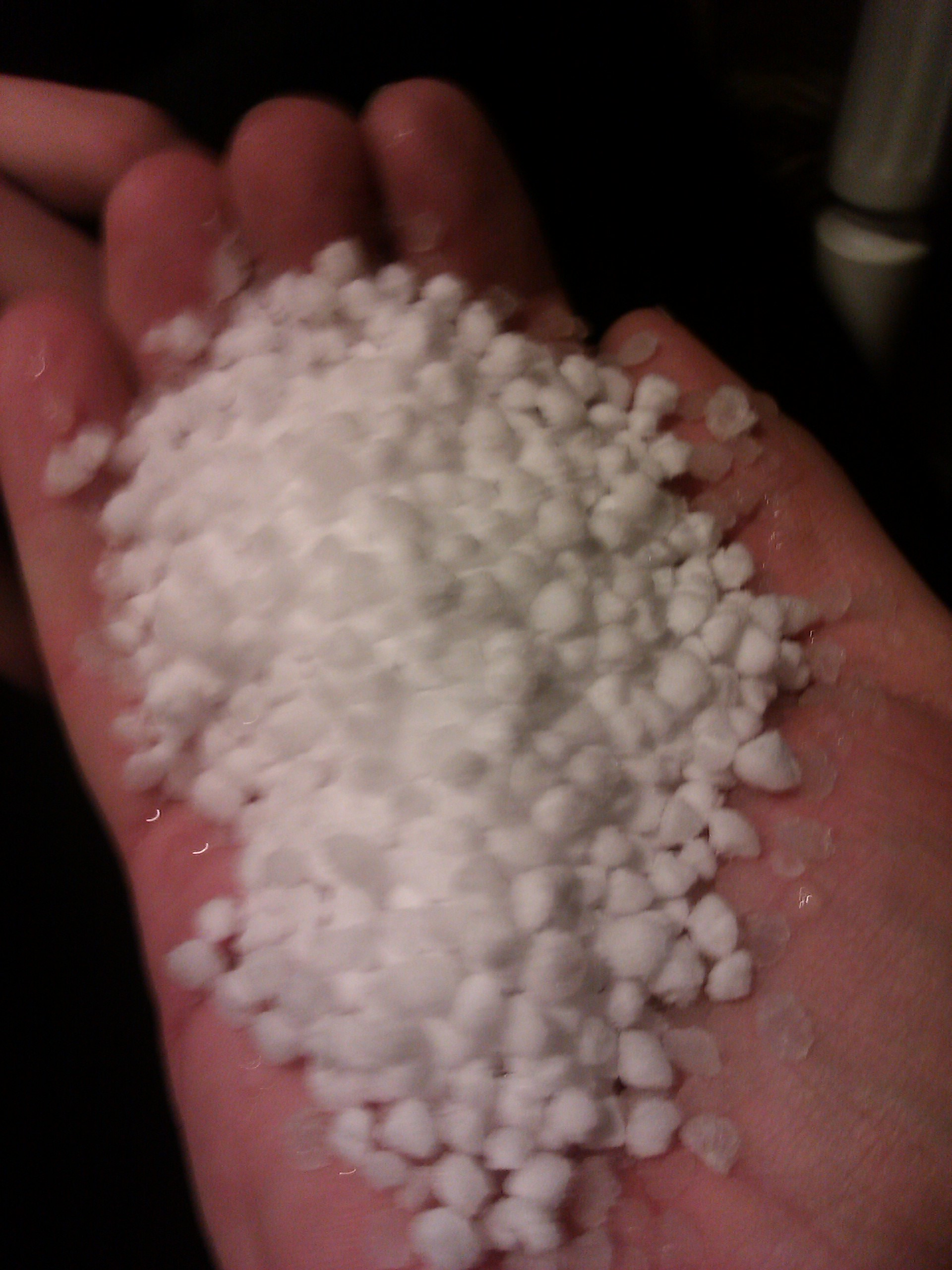 Handful of graupel from winter storm in Westwood, MA 2010-02-02